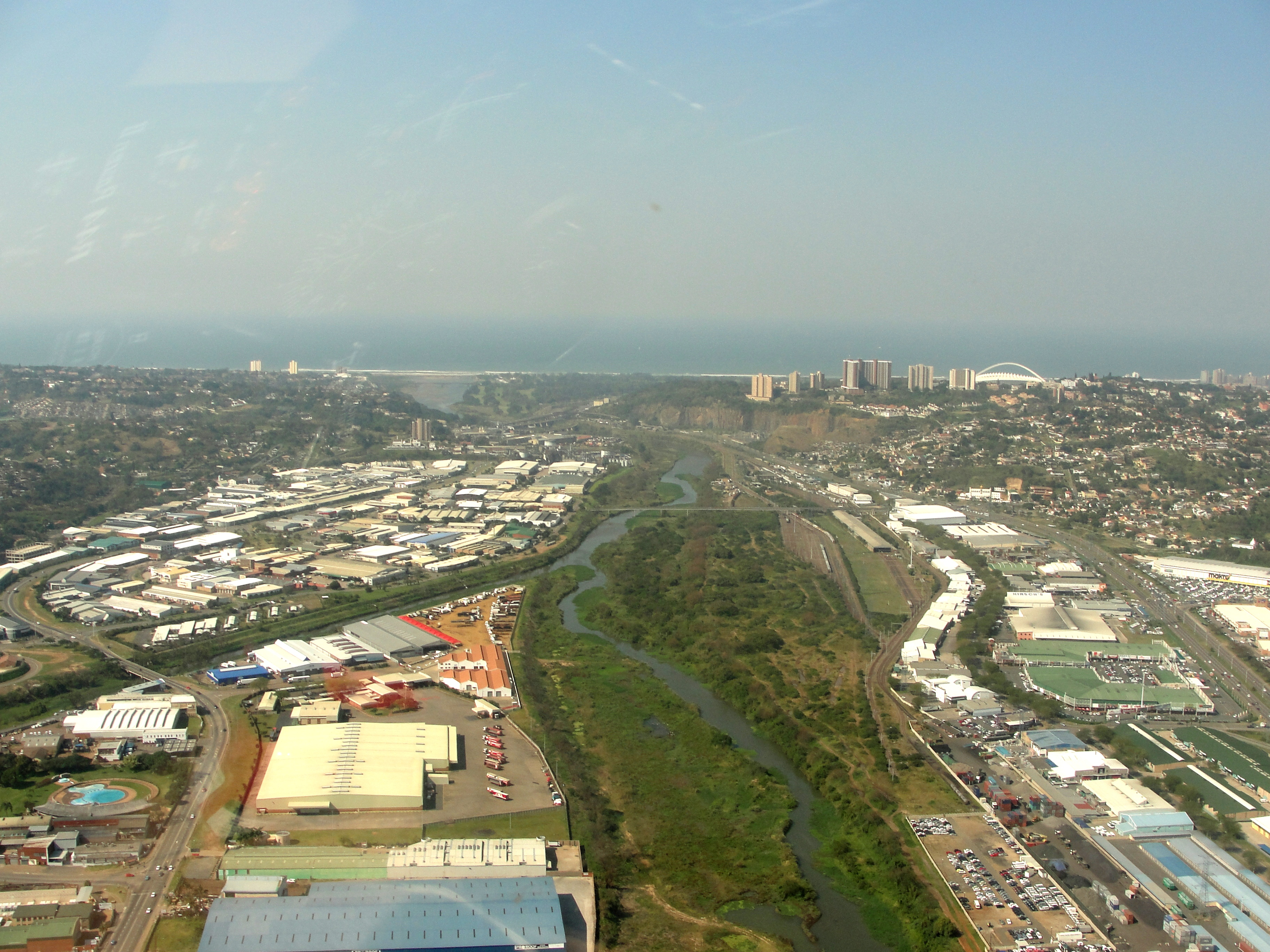 Umgeni river mouth in August 2011